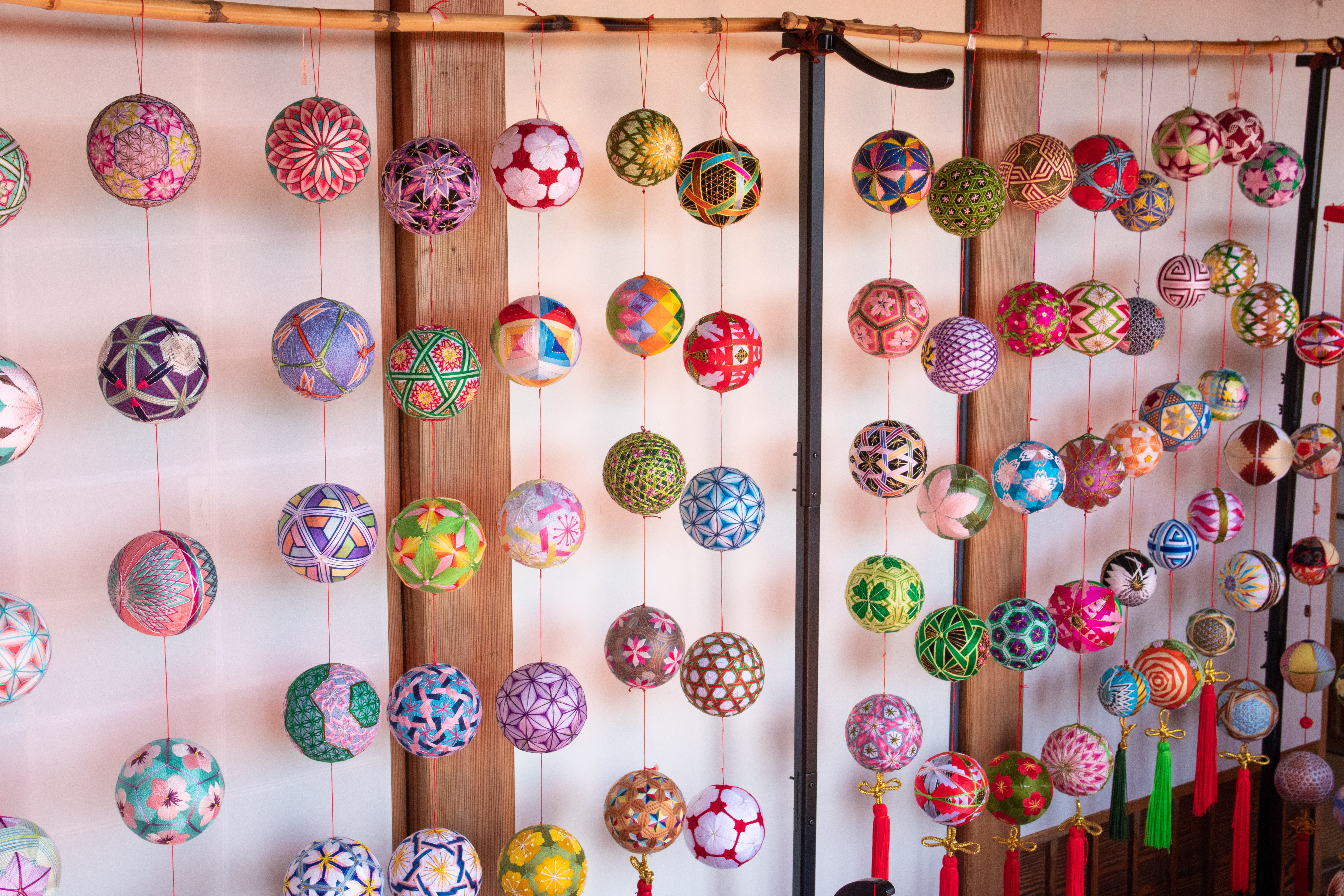 Hitachi Temari is traditional craft of Ibaraki, Japan